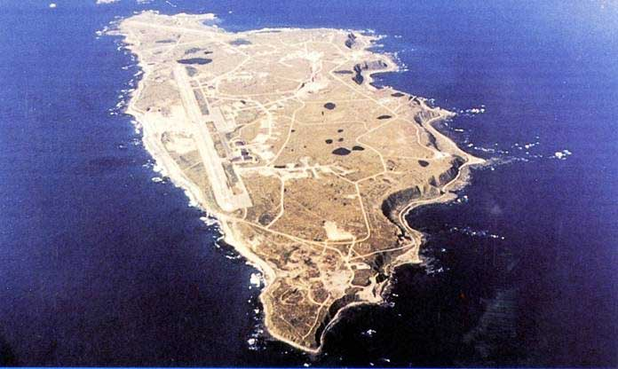 Eareckson Air Station, Shemya Island (US Air Force photo). The runway is 10/28 so this image faces roughly west or WNW.